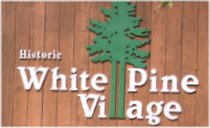 White Pine Village signage at admissions building